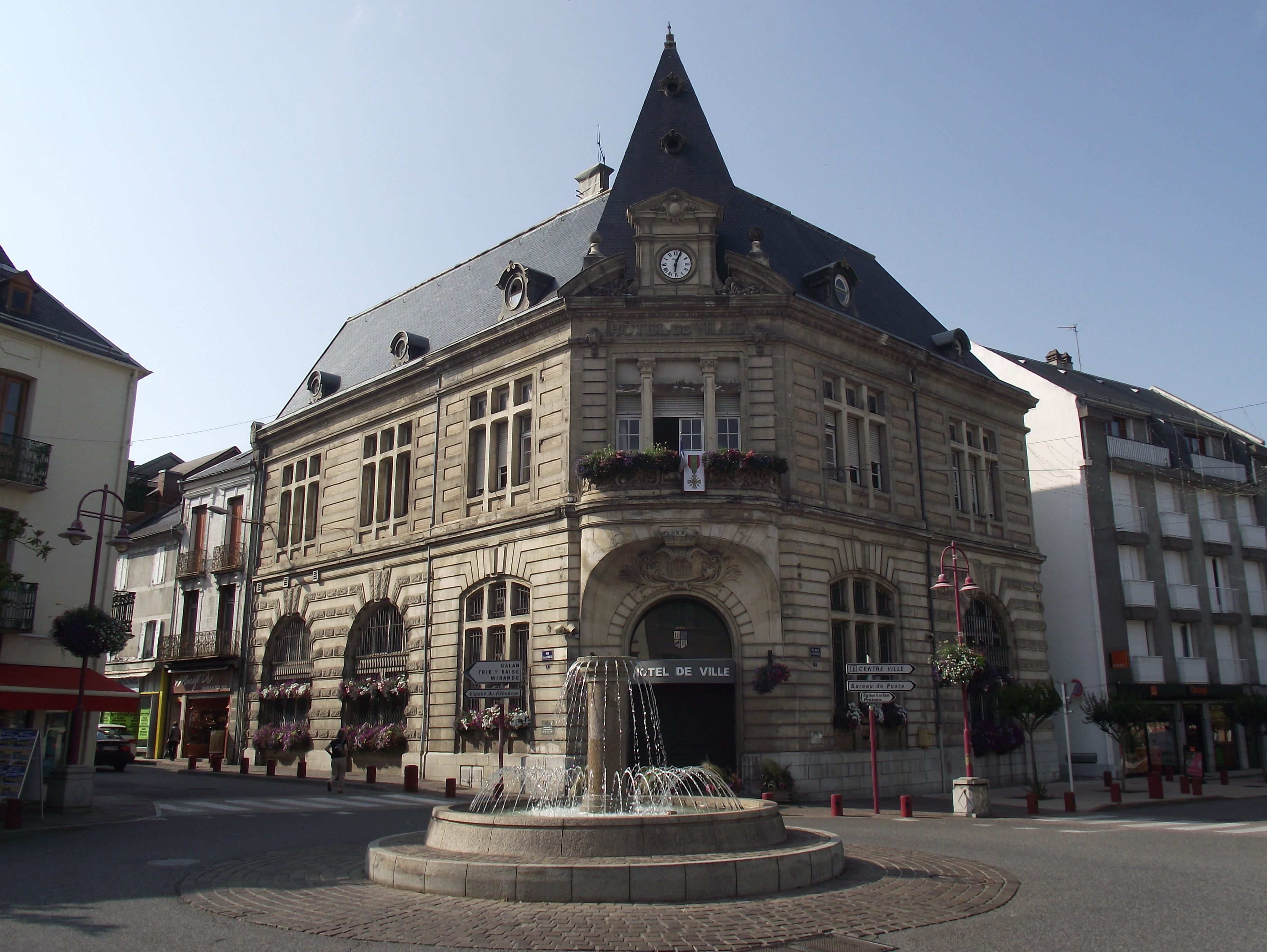 Lannemezan Town Hall, Hautes-Pyrénées, France